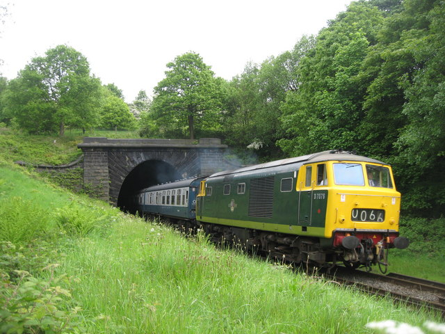 Brooksbottoms Tunnel. A preserved British Rail Class 35 Hymec Number D7076 has just come out of Brooksbottoms Tunnel on the East Lancashire Railway.